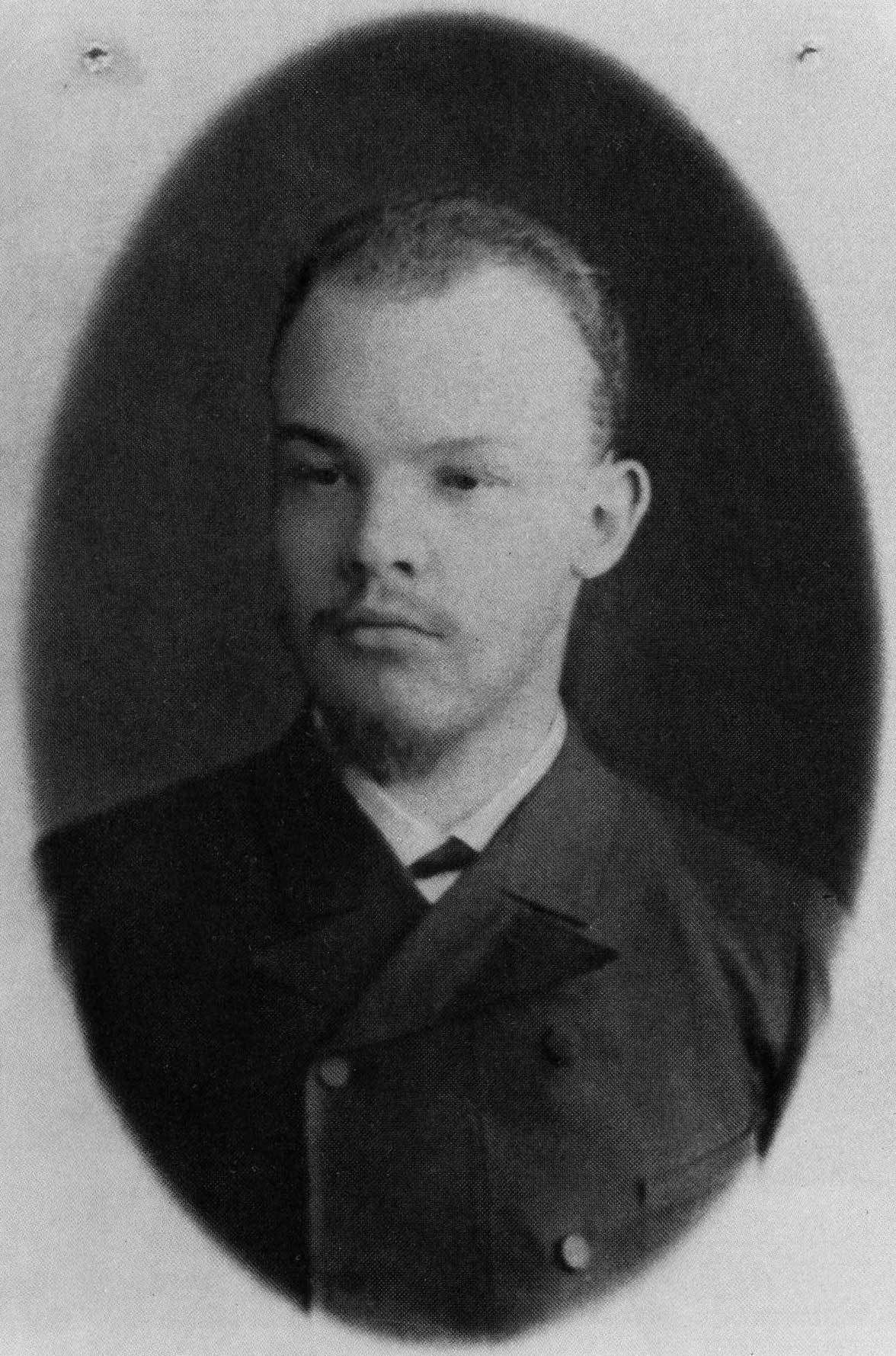 V. I. Ulyanov. Portrait. Not later than March 26th (April 7th), 1891. Samara. Original positive. 4.9x7.4 cm Photographer: I.A.Sharygin